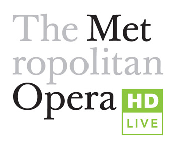 Metropolitan Opera: Live in HD logo